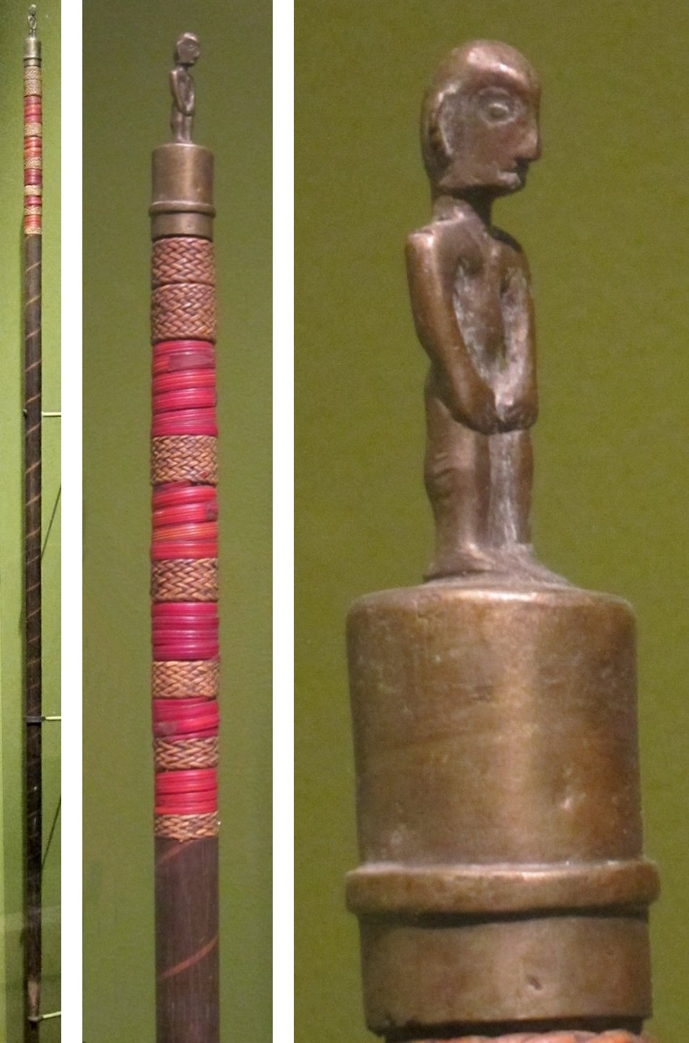 Staff of office from Bontoc in northern Luzon, c. 1905, wood, plated fiber and brass, Honolulu Museum of Art